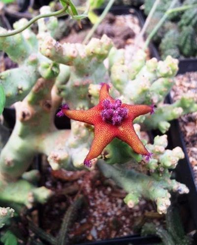 Caralluma lavrani - Desmidorchis